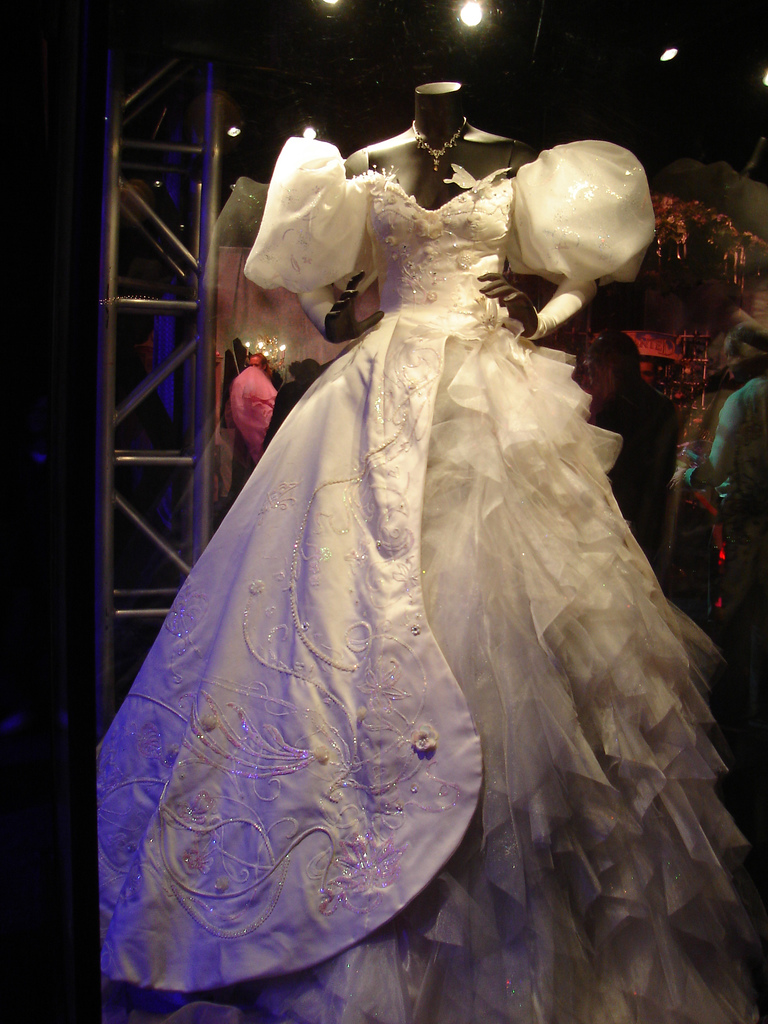 Photograph of the wedding dress that was designed for the film Enchanted on display at the El Capitan Theatre